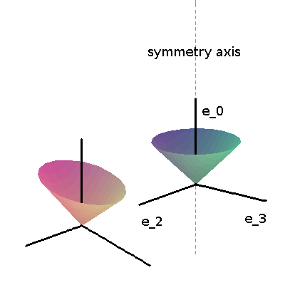 Couldn't overwrite my first (junky) figure so now I am trying to make another one.